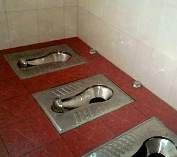 Interior of a public toilet in Beijing, China.